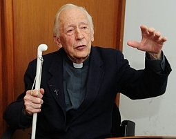 P. Rene Laurentín